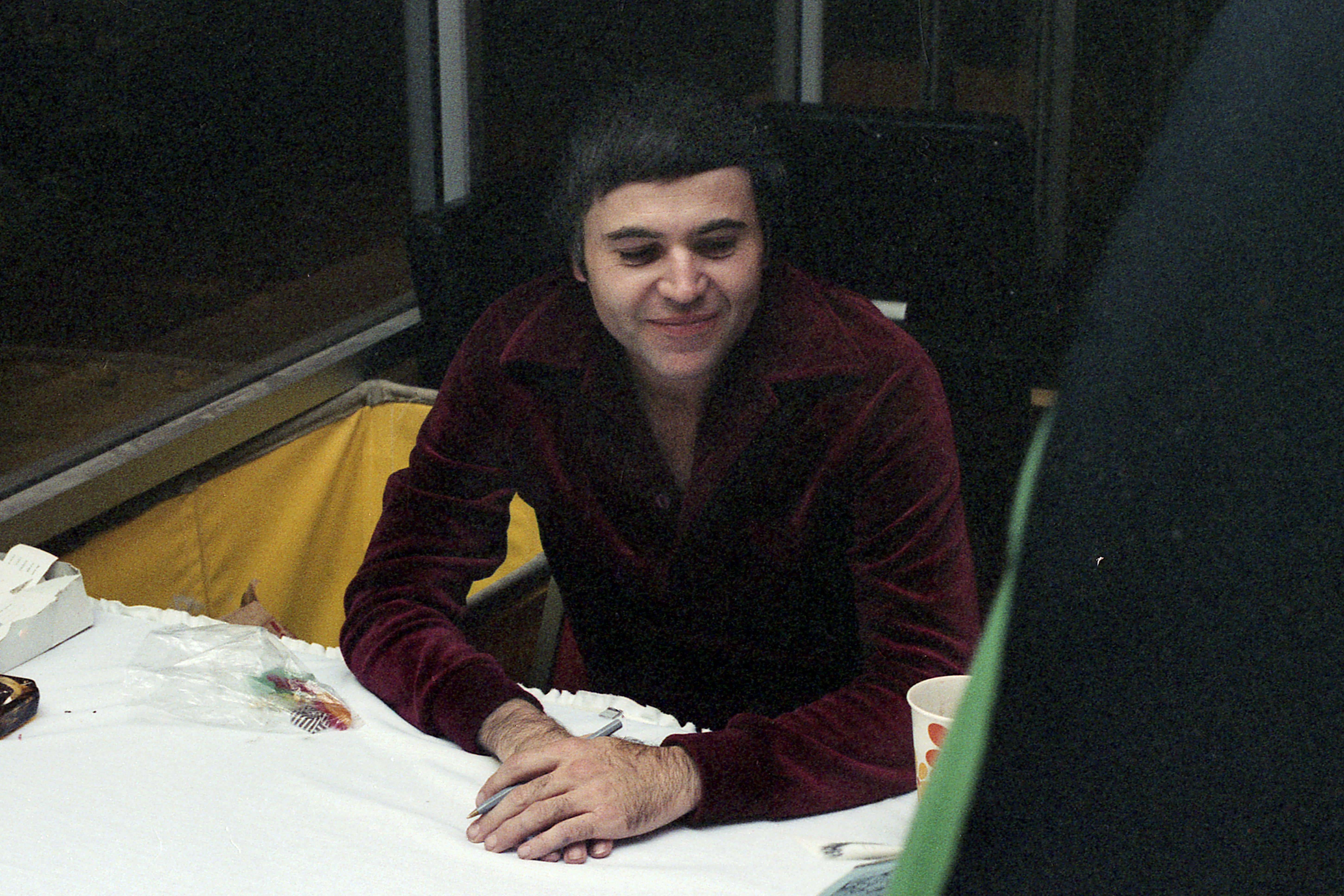 Walter Koenig promoting Star Trek: The Motion Picture. 1979 Tex-Con science fiction convention in Irving, TX. Guests included Dr. Donald Curtis and Walter Koenig. Shot on 35mm film using a Canon A1 and Canon FD 50mm f/1.4 lens.